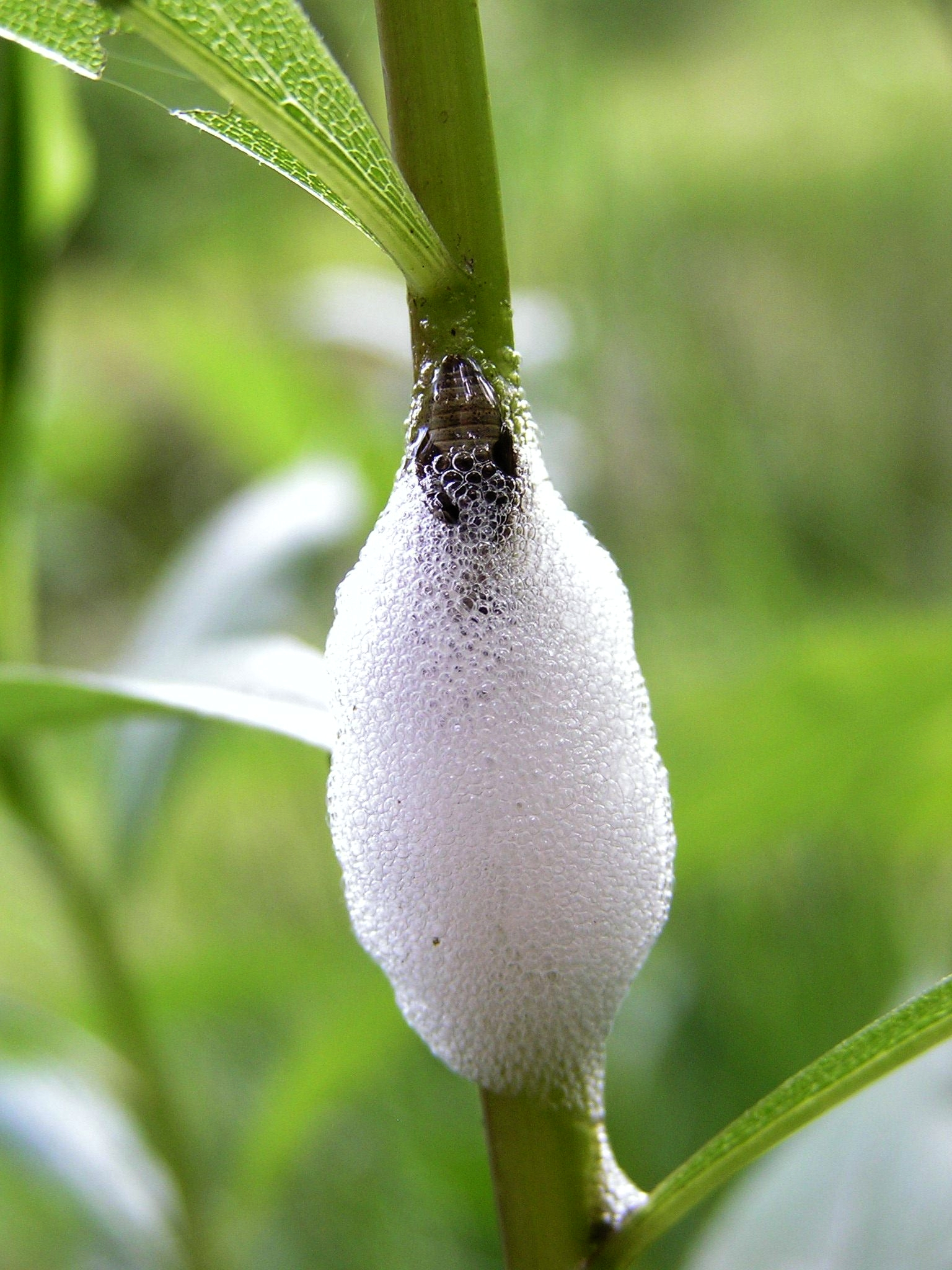 larva of an Aphrophoridae, possibly Aphrophora salicina or Aphrophora pectoralis in saliva(?) nest